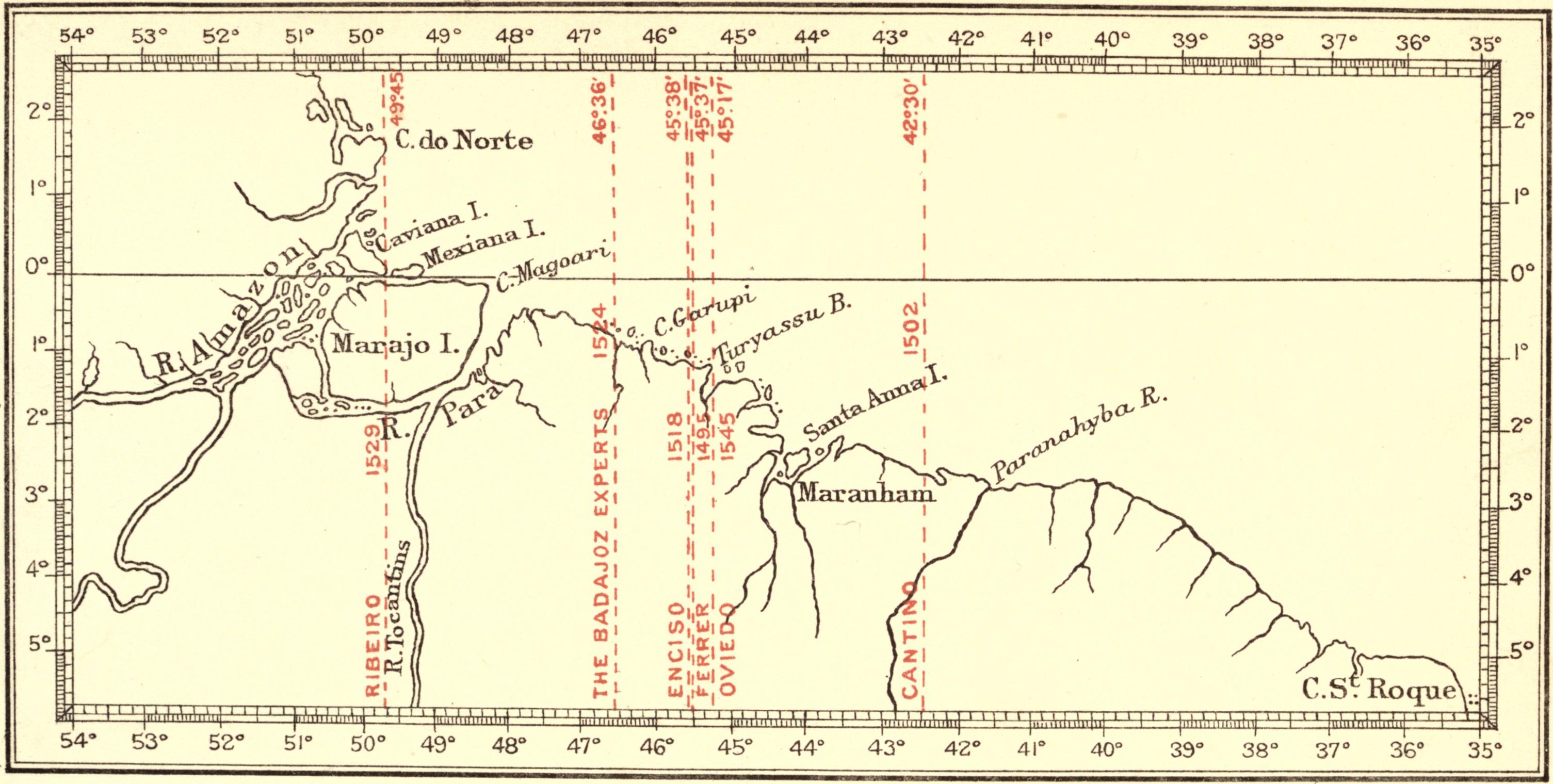 Early demarcation lines (1495–1545) for the Treaty of Tordesillas (1494)